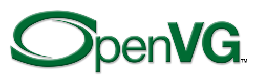 Official logo of OpenVG